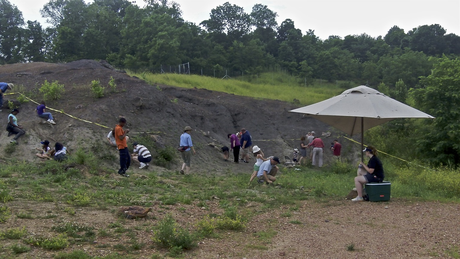 Fossil hunting at Dinosaur Park